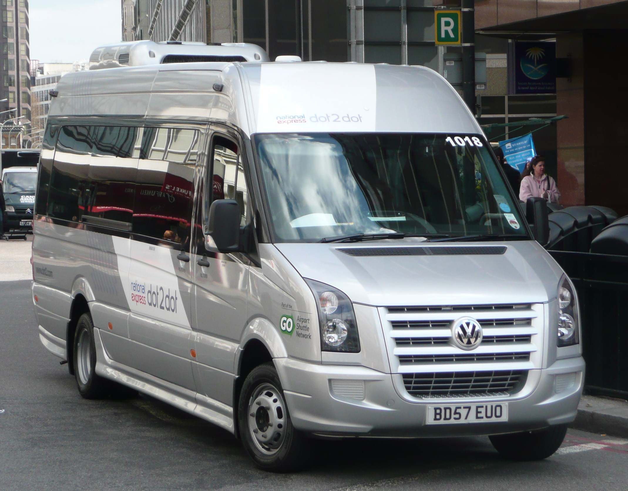 A National Express "dot2dot" vehicle in London.